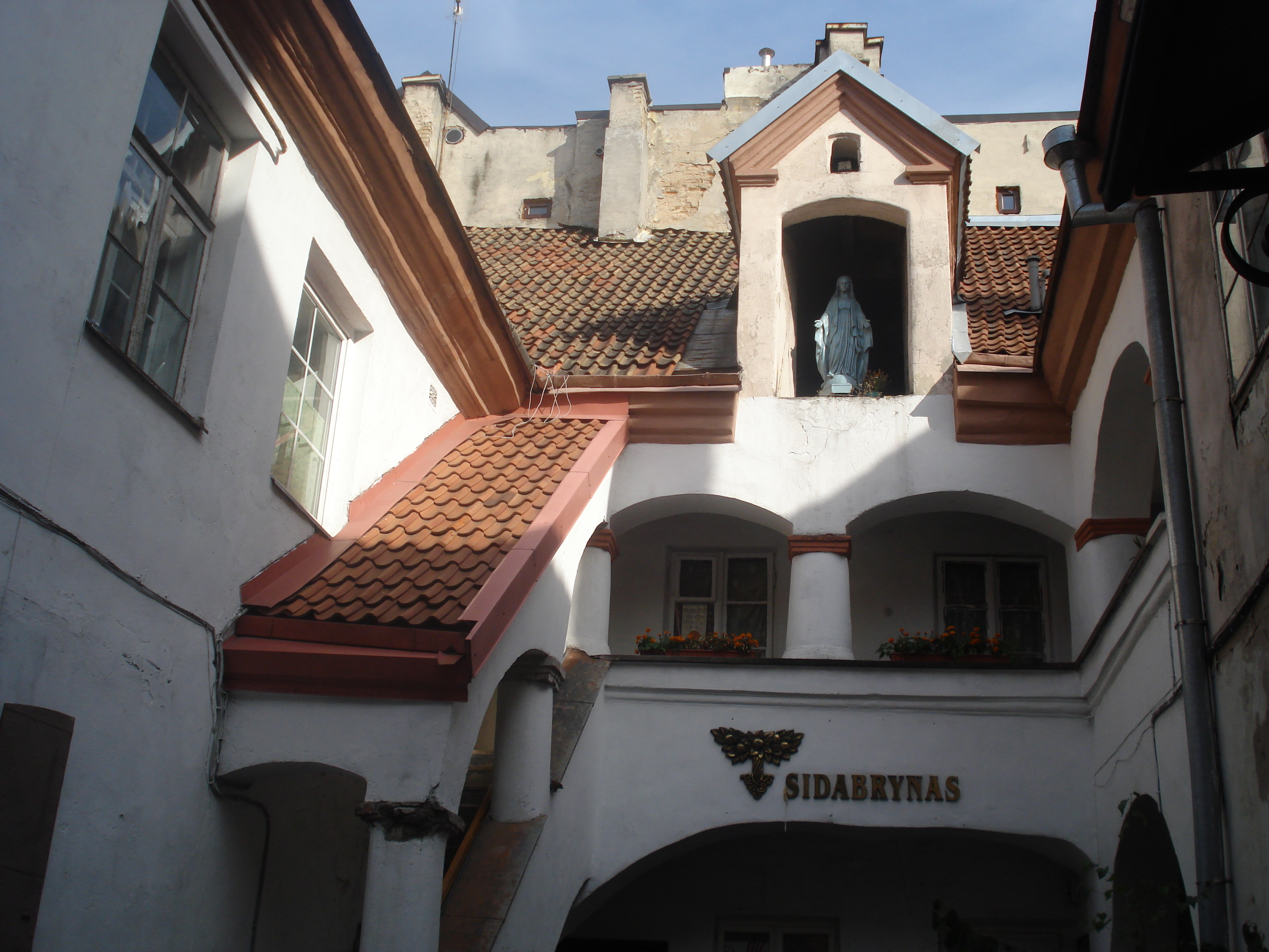 Yard of Liachowicz's House, till 1945 House of Roemer Family in Vilnius (Pilies g. 32/1). XIX a. pradžioje filaretų lankoma kavinė "Viktorija". Stairs after reconstruction by Cyprian Maculiewicz, end of XIX century